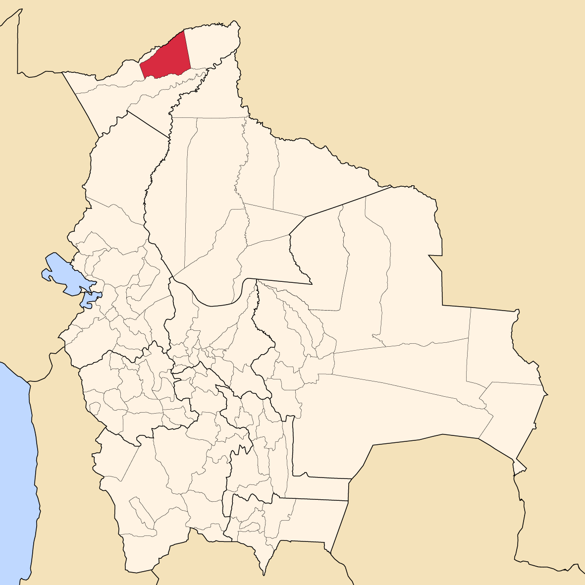 Map of Bolivia showing Abuná province, Pando